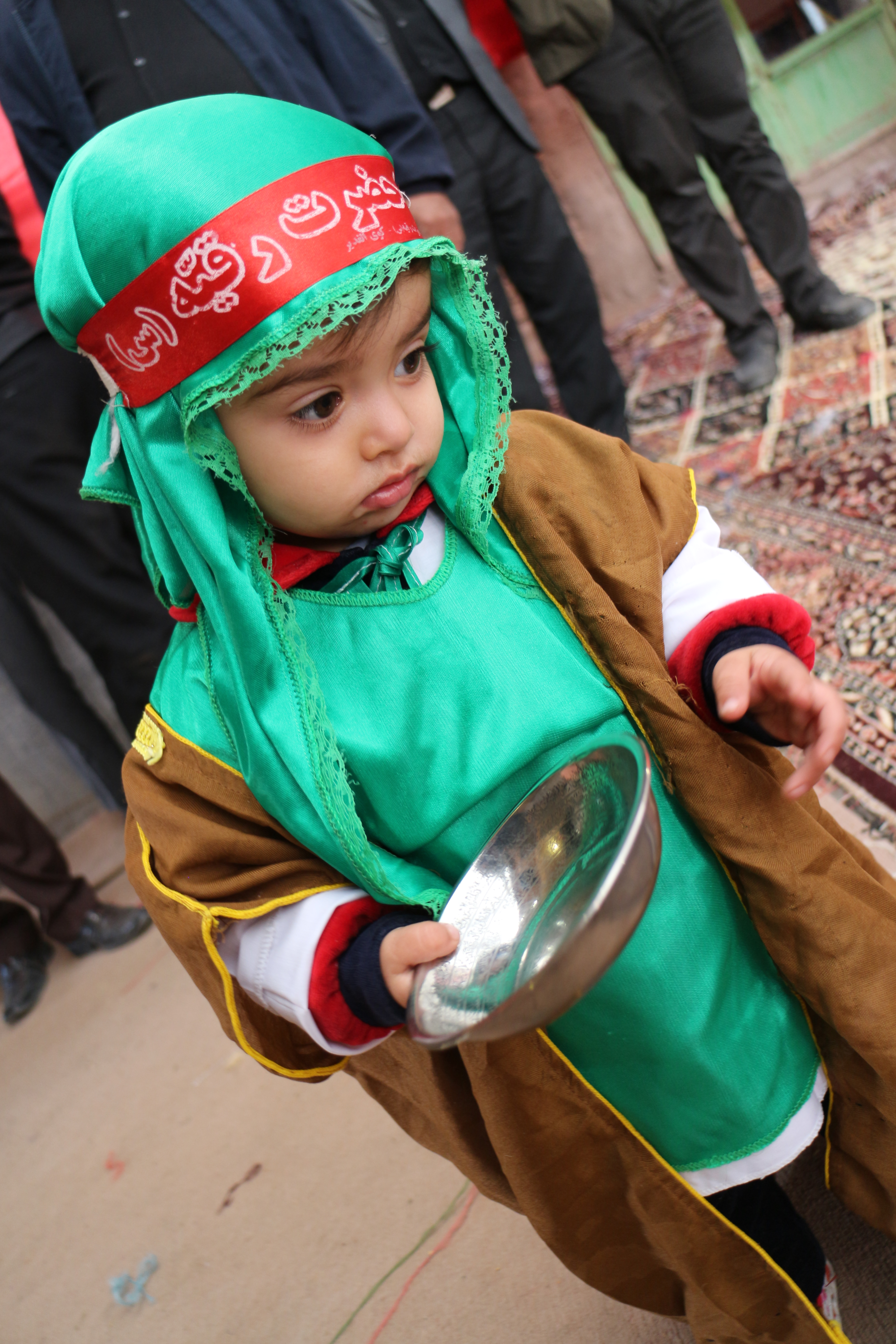 An Iranian child in Mourning of Muharram with red Headband written O' Ruqayyah. Mourning of Muharram is held in majority of cities and villages in Iran by Shia Muslims annually. Although all sort of ceremonies are performed for Imam Hossein and his followers martyrdom remembrance, they have different styles and rules referring to various cultures.